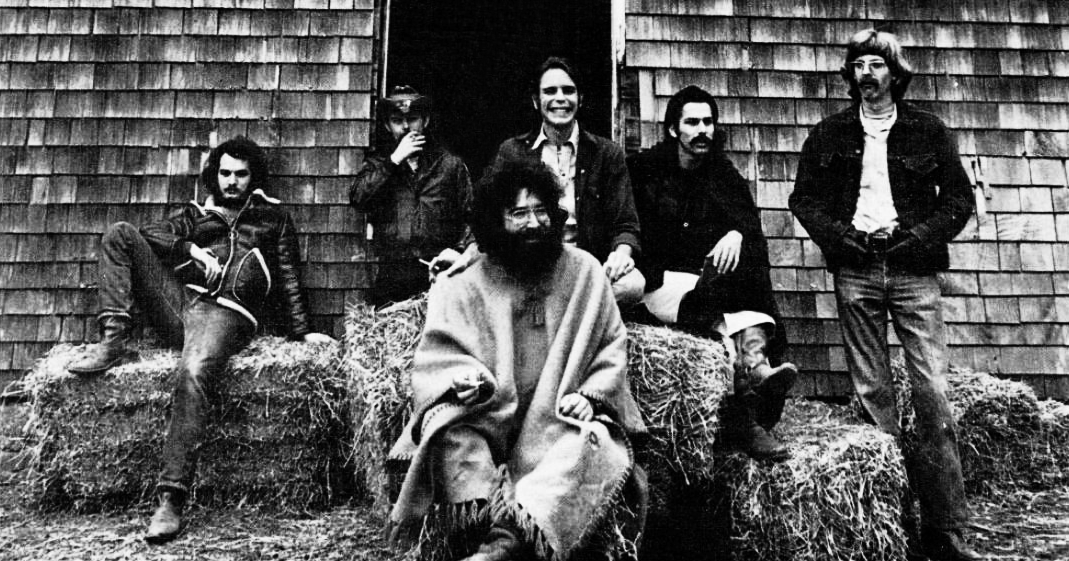 Trade ad for Grateful Dead's album American Beauty (album).To better adapt it to this respective Wikipedia article, the ad was cropped and cleaned in a graphics editing program. The original can be viewed at the source below.